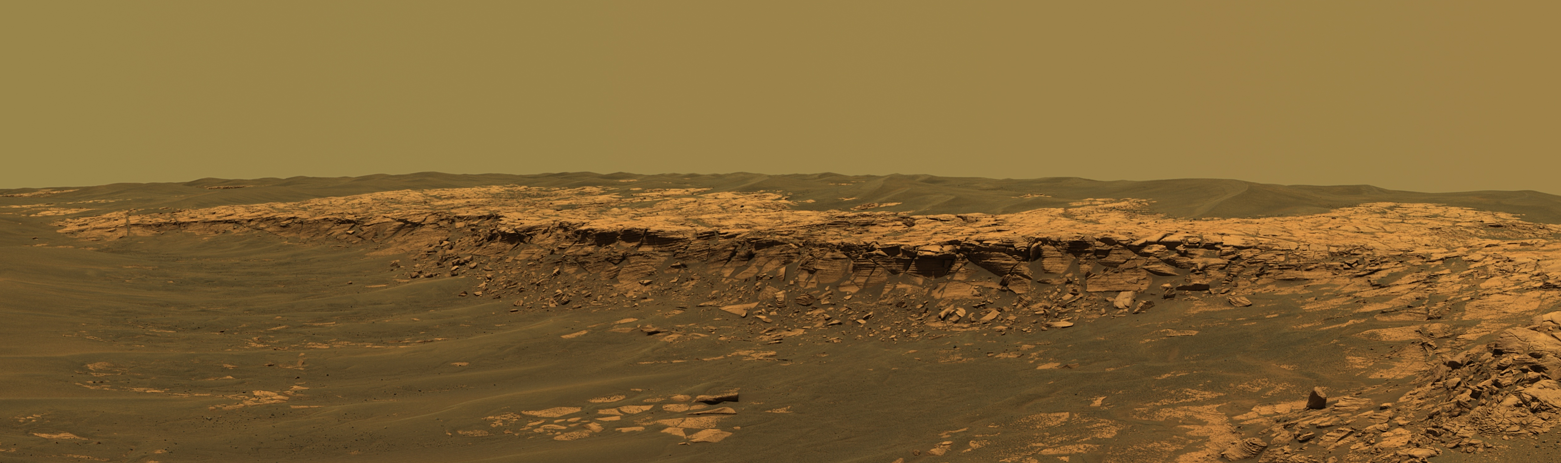 The panoramic camera aboard NASA's Mars Exploration Rover Opportunity acquired this panorama of the "Payson" outcrop on the western edge of "Erebus" Crater during Opportunity's sol 744 (Feb. 26, 2006). From this vicinity at the northern end of the outcrop, layered rocks are observed in the crater wall, which is about 1 meters (3.3 feet) thick. The view also shows rocks disrupted by the crater-forming impact event and subjected to erosion over time. To the left of the outcrop, a flat, thin layer of spherule-rich soils overlies more outcrop materials. The rover is currently traveling down this "road" and observing the approximately 25-meter (82-foot) length of the outcrop prior to departing Erebus crater. The panorama camera took 28 separate exposures of this scene, using four different filters. The resulting panorama covers about 90 degrees of terrain around the rover. This approximately true-color rendering was made using the camera's 753-nanometer, 535-nanometer and 423-nanometer filters. Image-to-image seams have been eliminated from the sky portion of the mosaic to better simulate the vista a person standing on Mars would see.